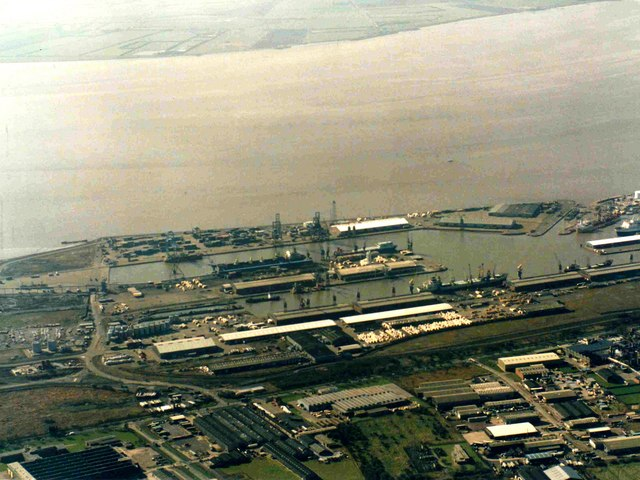 Queen Elizabeth & King George Docks Looking in a south westerly direction from a light aircraft at about 1500' (475m) towards Queen Elizabeth & King George Docks. The River Humber and Lincolnshire can be seen in the distance.